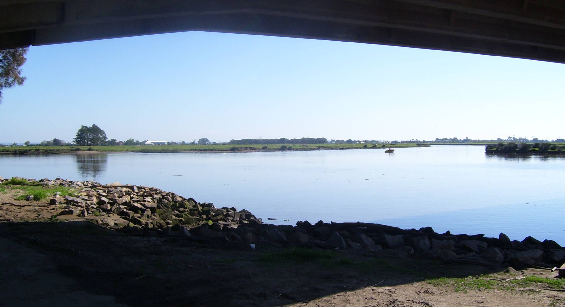 Confluence of the Hunter and Williams rivers at Raymond Terrace, New South Wales. The image was taken from under the Fitzgerald Bridge over the Williams River, just east of where the rivers join. The Hunter river flows out of frame and towards Newcastle at the left of the image.